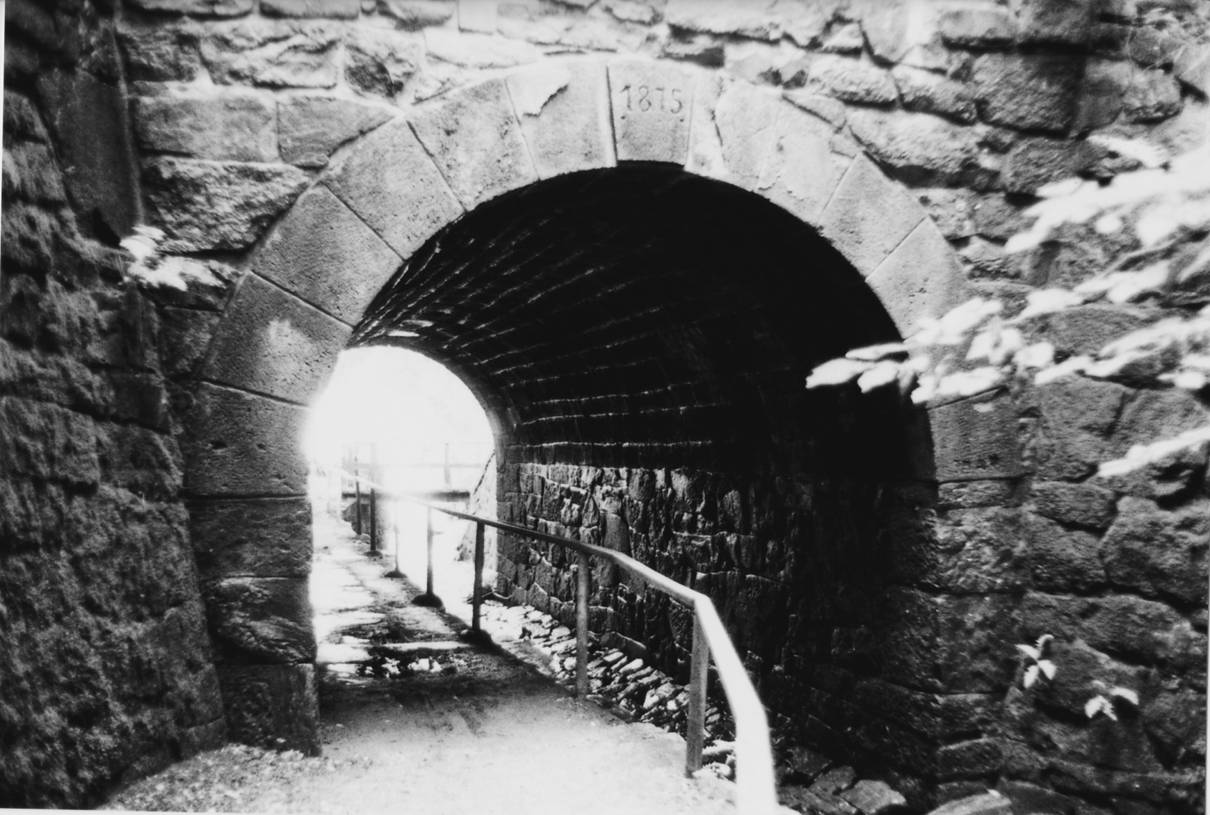 Tunnel (1875) of the stream “Kaufunger Dorfbach” under the German railway line 6629 from Glauchau to Wurzen at its mouth into the Zwickau Mulde in Limbach-Oberfrohnas district Wolkenburg-Kaufungen